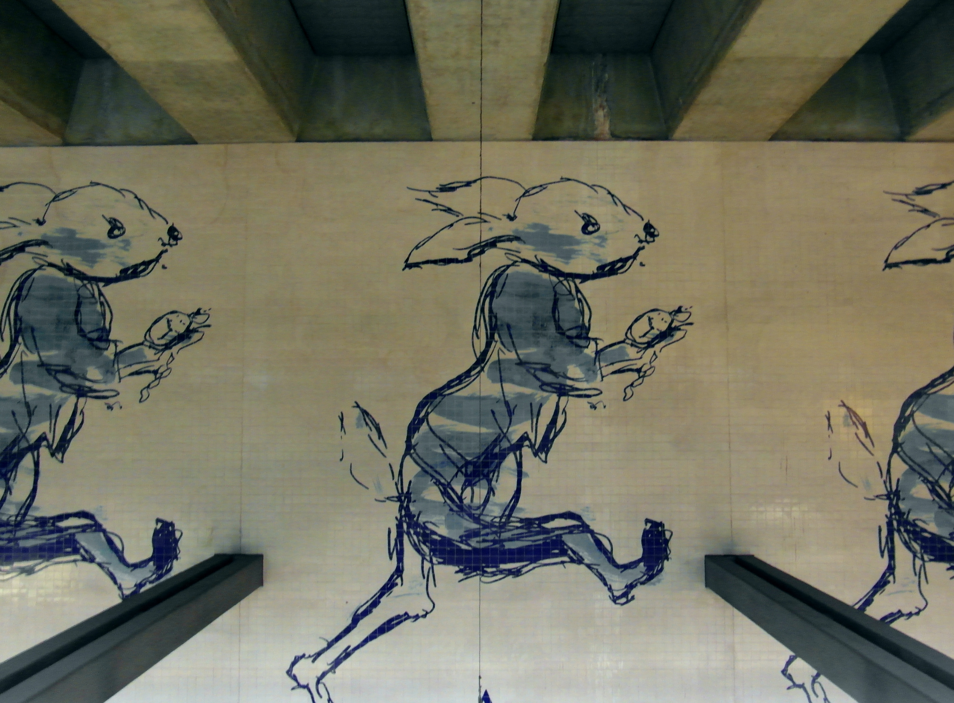 Cais do Sodré underground station, Lisboa, Portugal